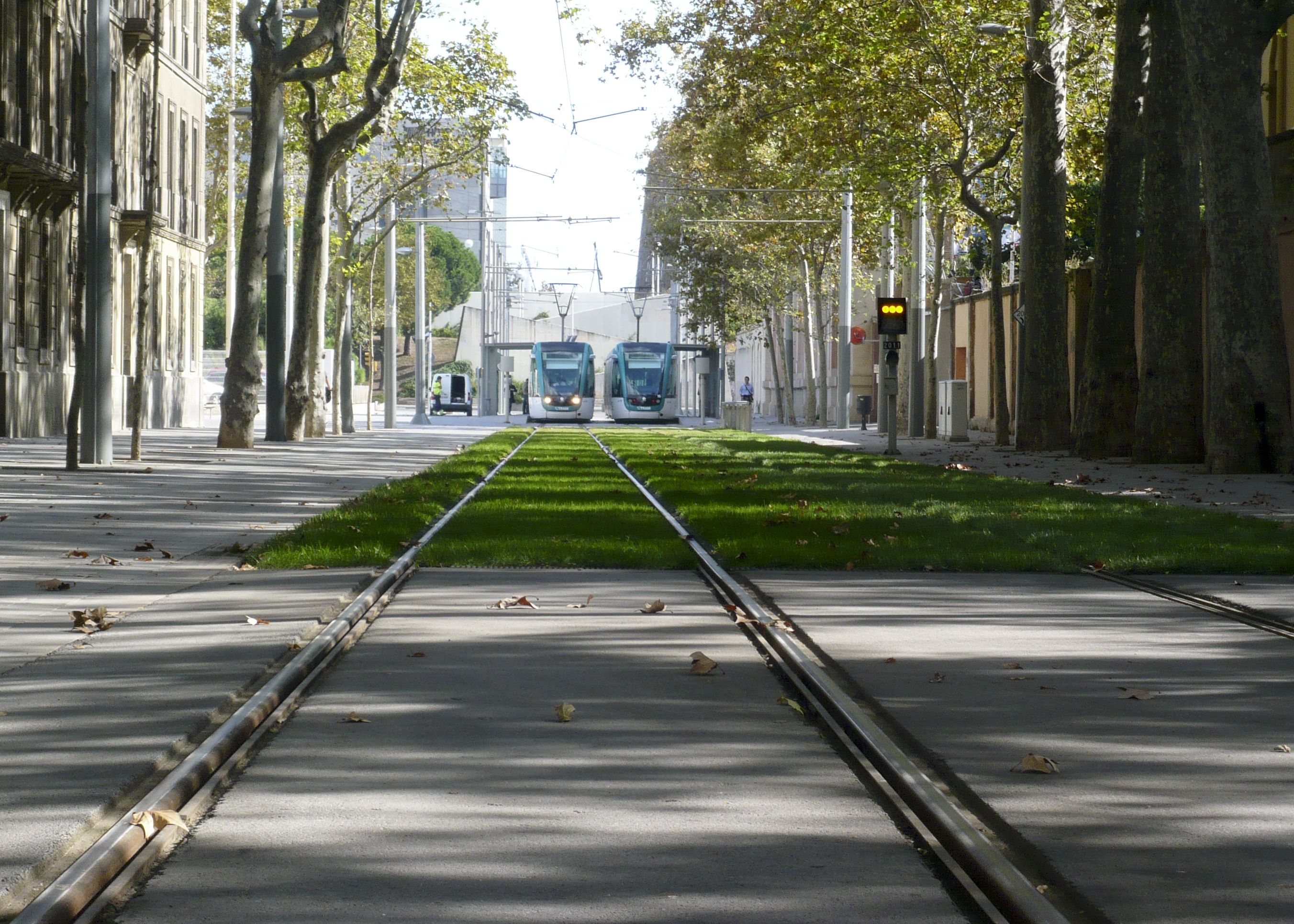 carrer Wellington, Barcelona Trams